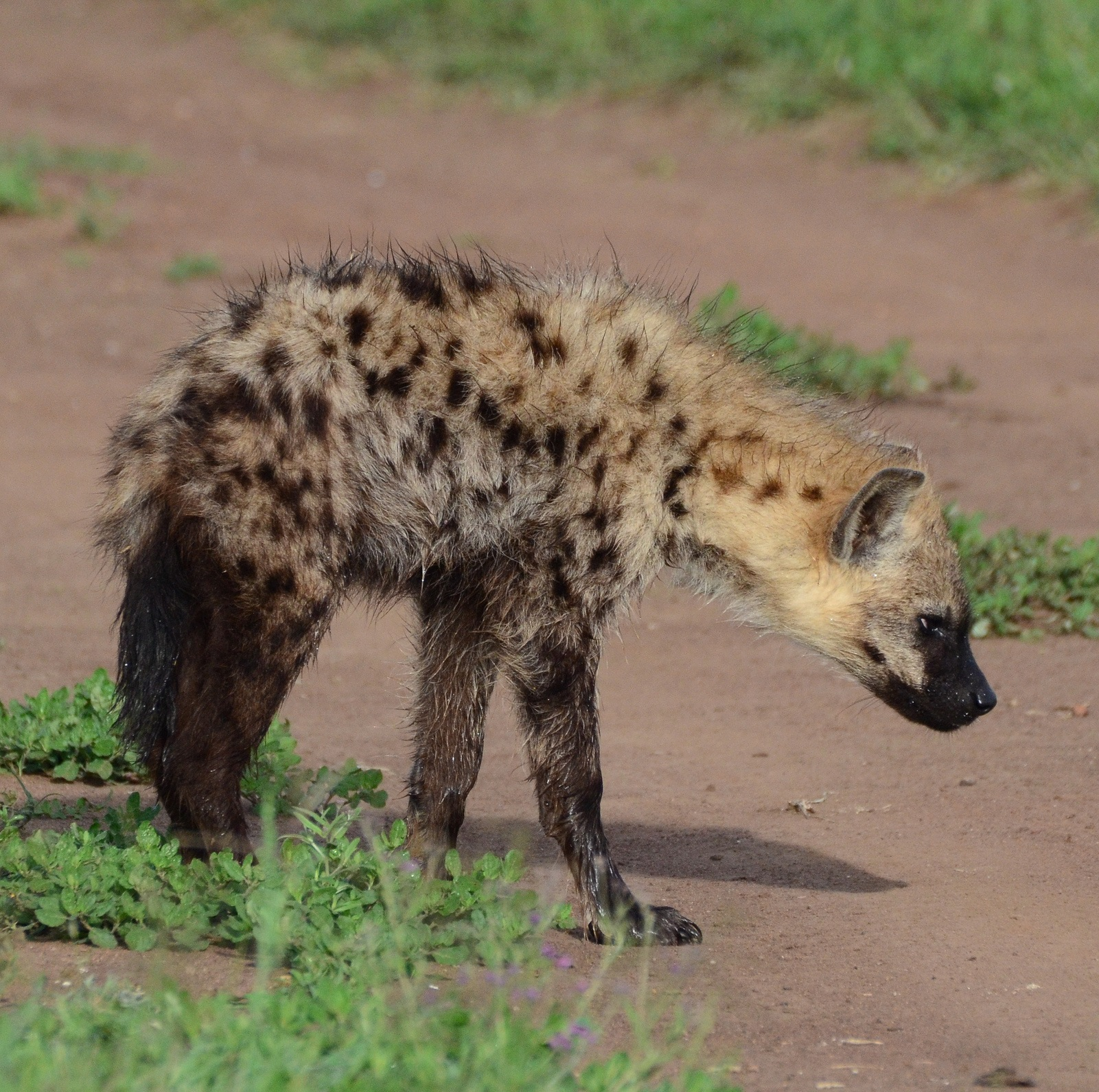 Young spotted hyena, Serengeti, Tanzania